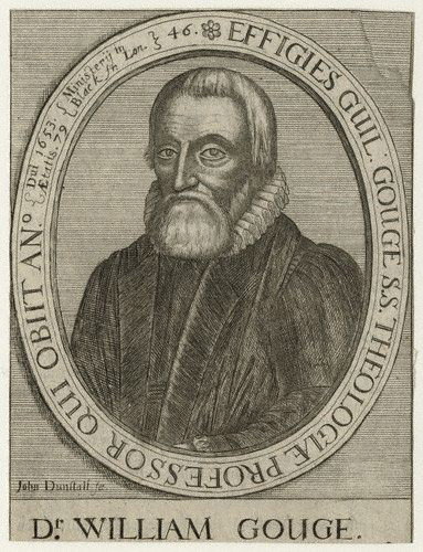 Portrait of William Gouge (1575-1653).